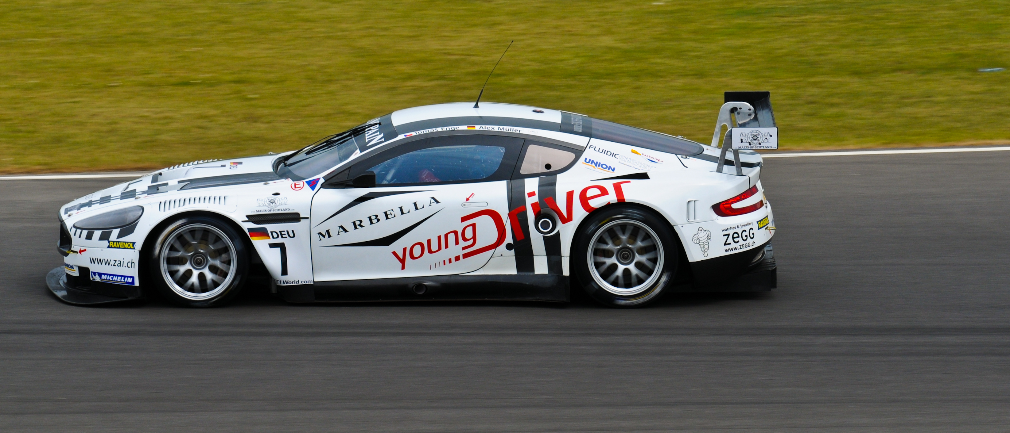 2011 FIA GT1 Silverstone round